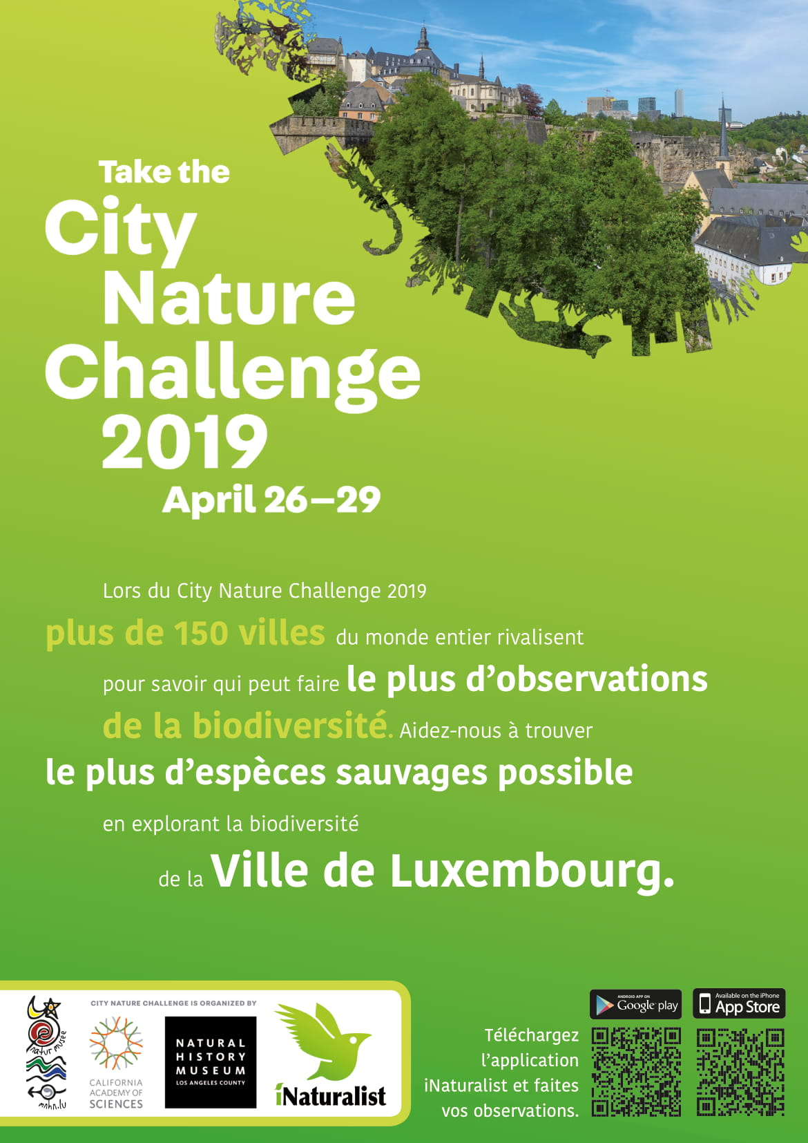 Flyer for the City Nature Challenge 2019 in Luxembourg, organised by the MnhnL